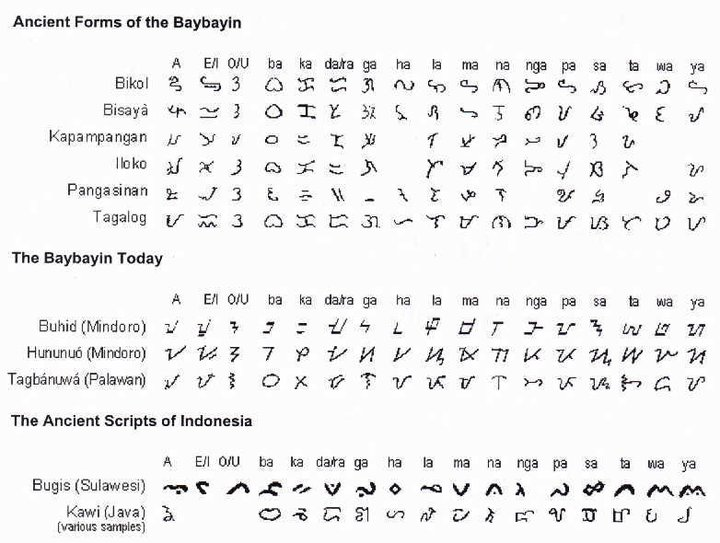 Several Sulats of the Philippines